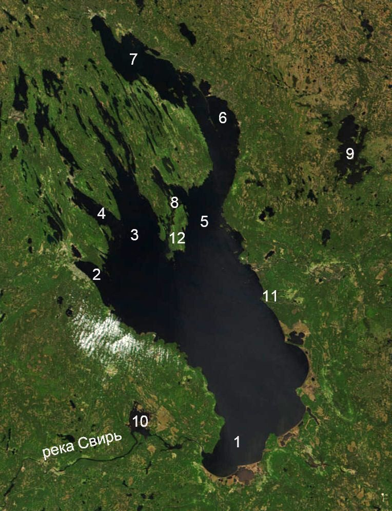 Onego lake